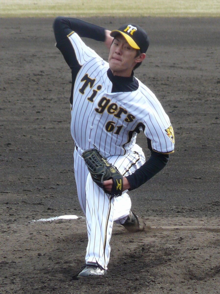 Hanshin Tigers/Daiyu Kanemura